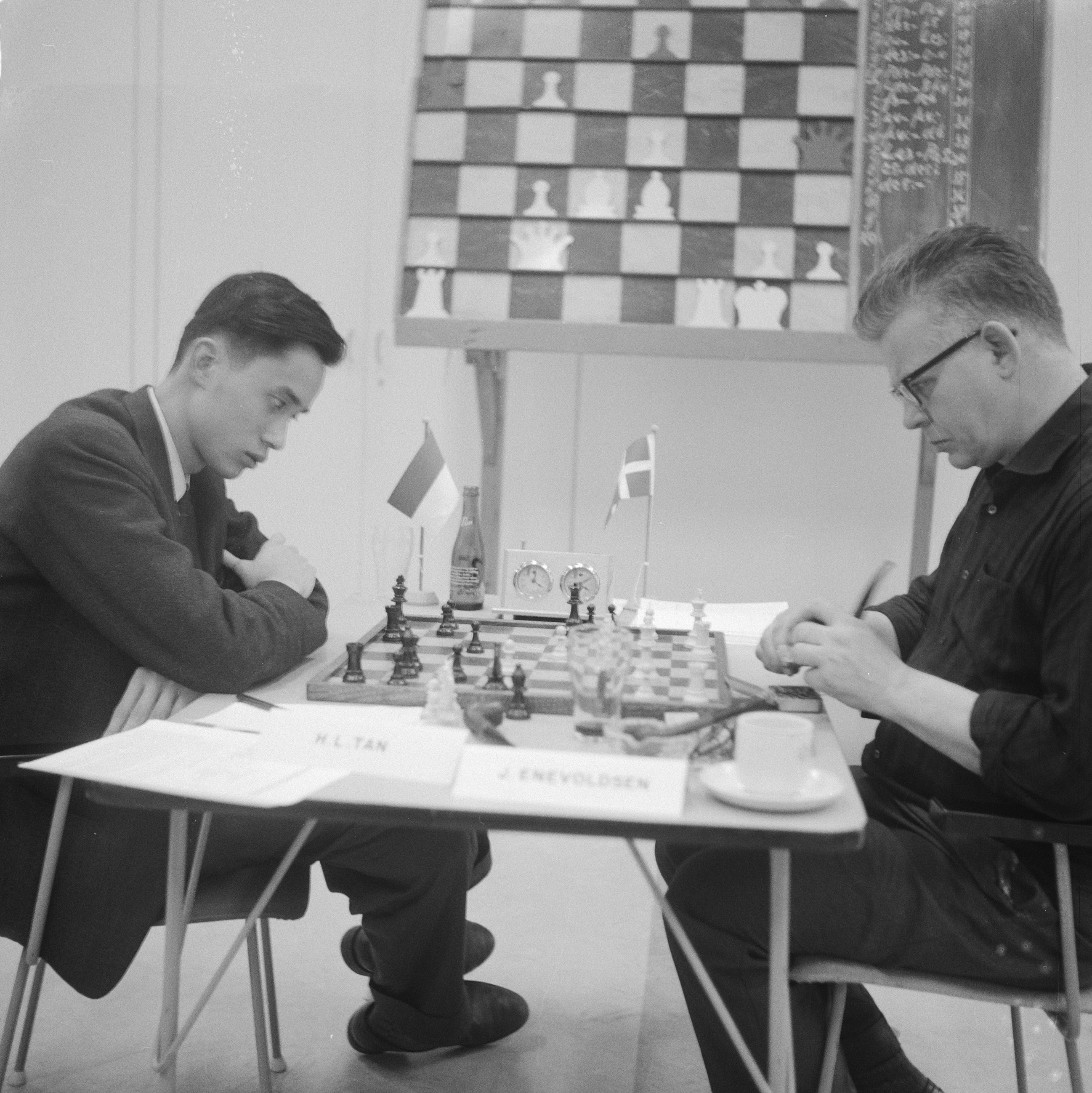 Tan Hoan Liong vs. Jens Enevoldsen, IBM Chess Tournament, 5 June 1961